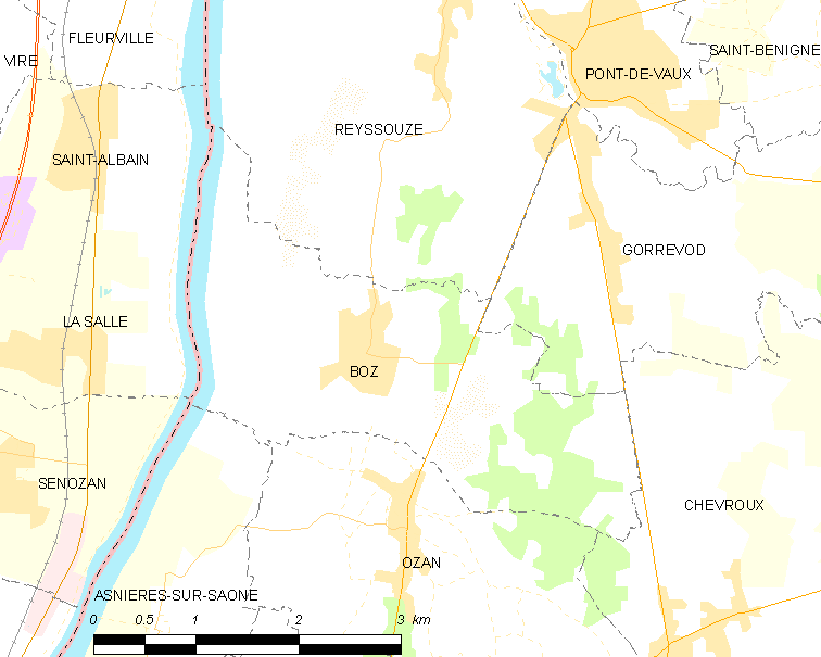 Map of French commune: Boz Map commune FR insee code 01057.png